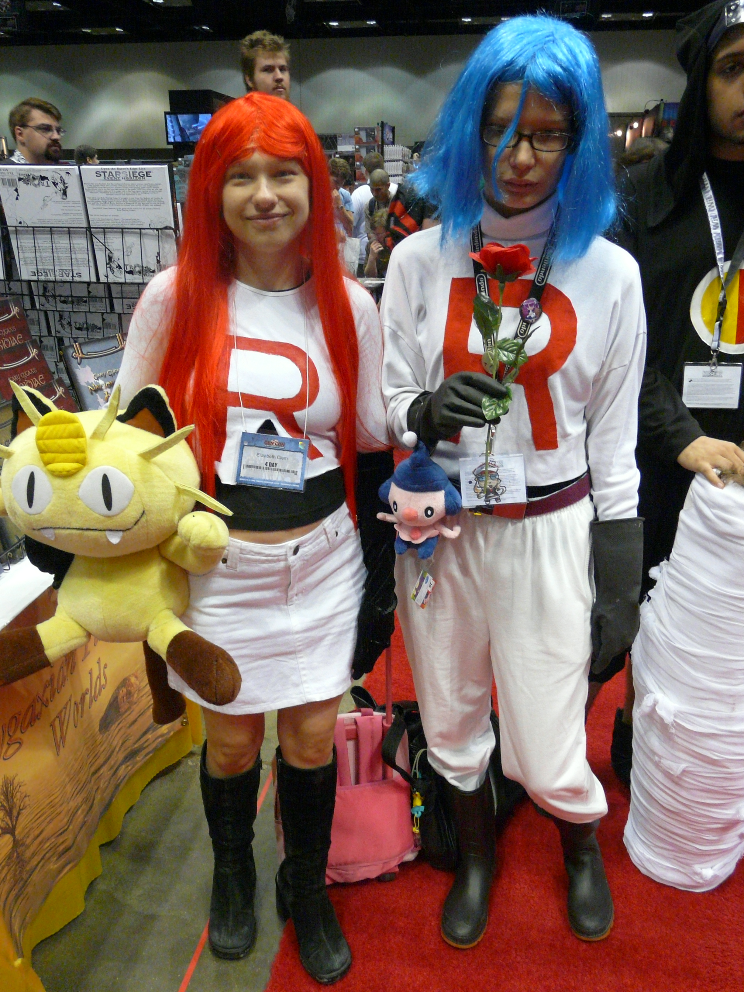 Picture of Gen Con Indy 2008 in Indianapolis, Indiana, USA.